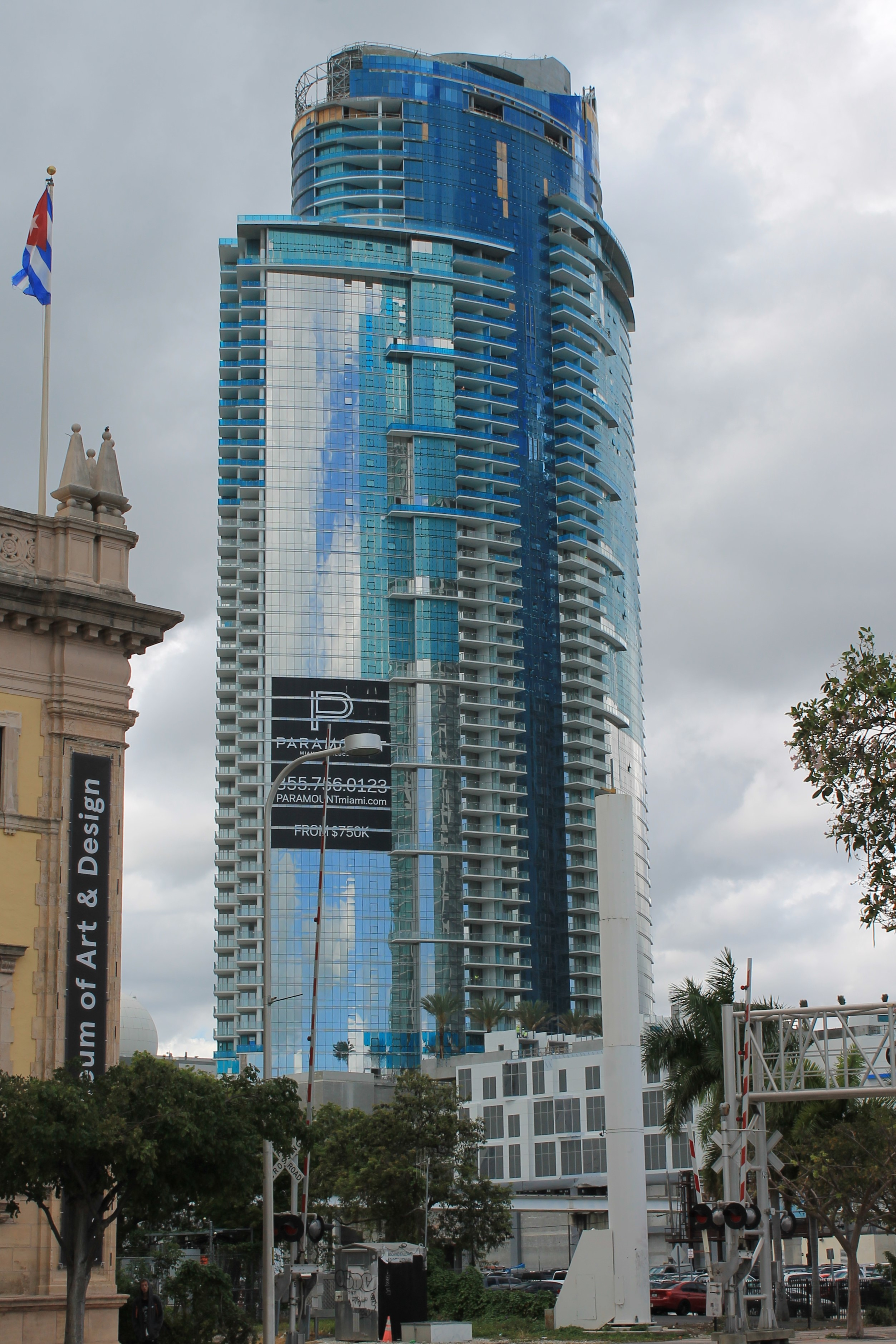 Paramount Miami Worldcenter seen on 20 March 2019.